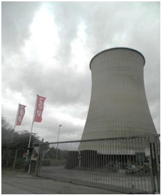 De elektriciteitscentrale